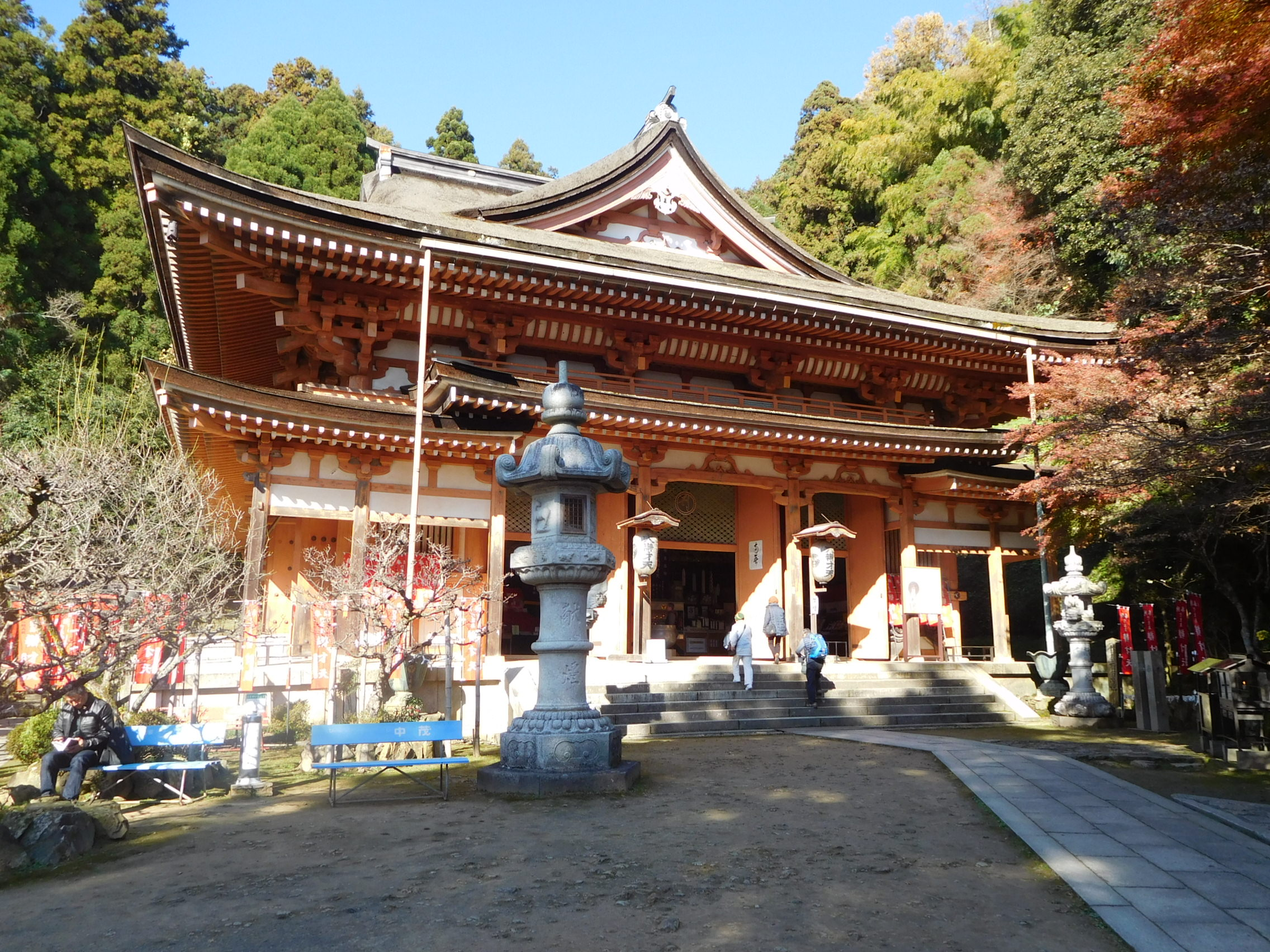 Chikubu Island, Shiga Prefecture, Japan.